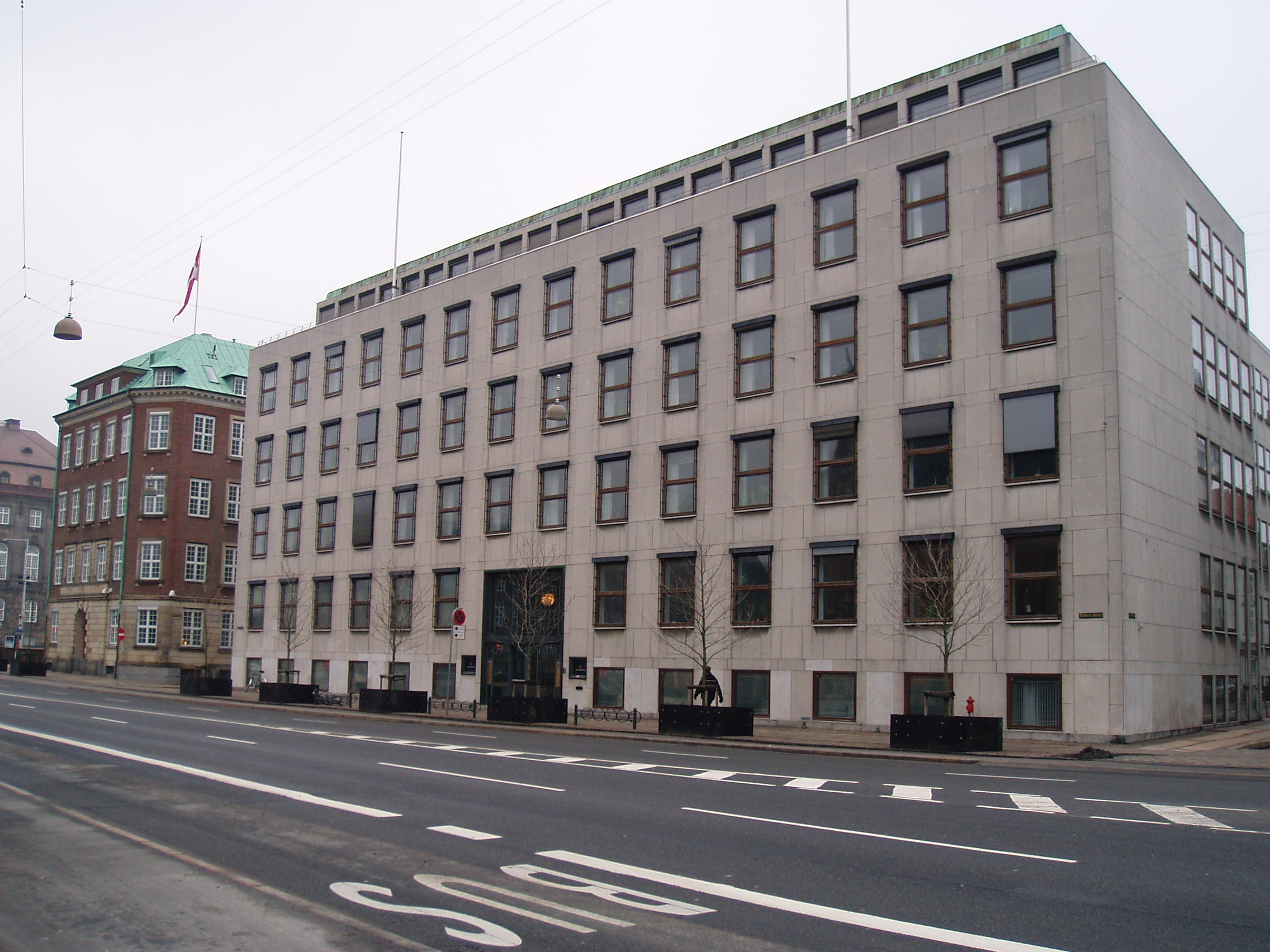 Danish Ministry of Social Affairs. Ministry of Defence on the left.